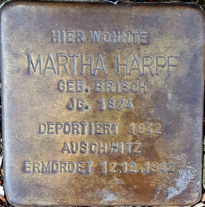 Stumbling Stone Martha Harpf, Alwinenstr. 25 (Wiesbaden)